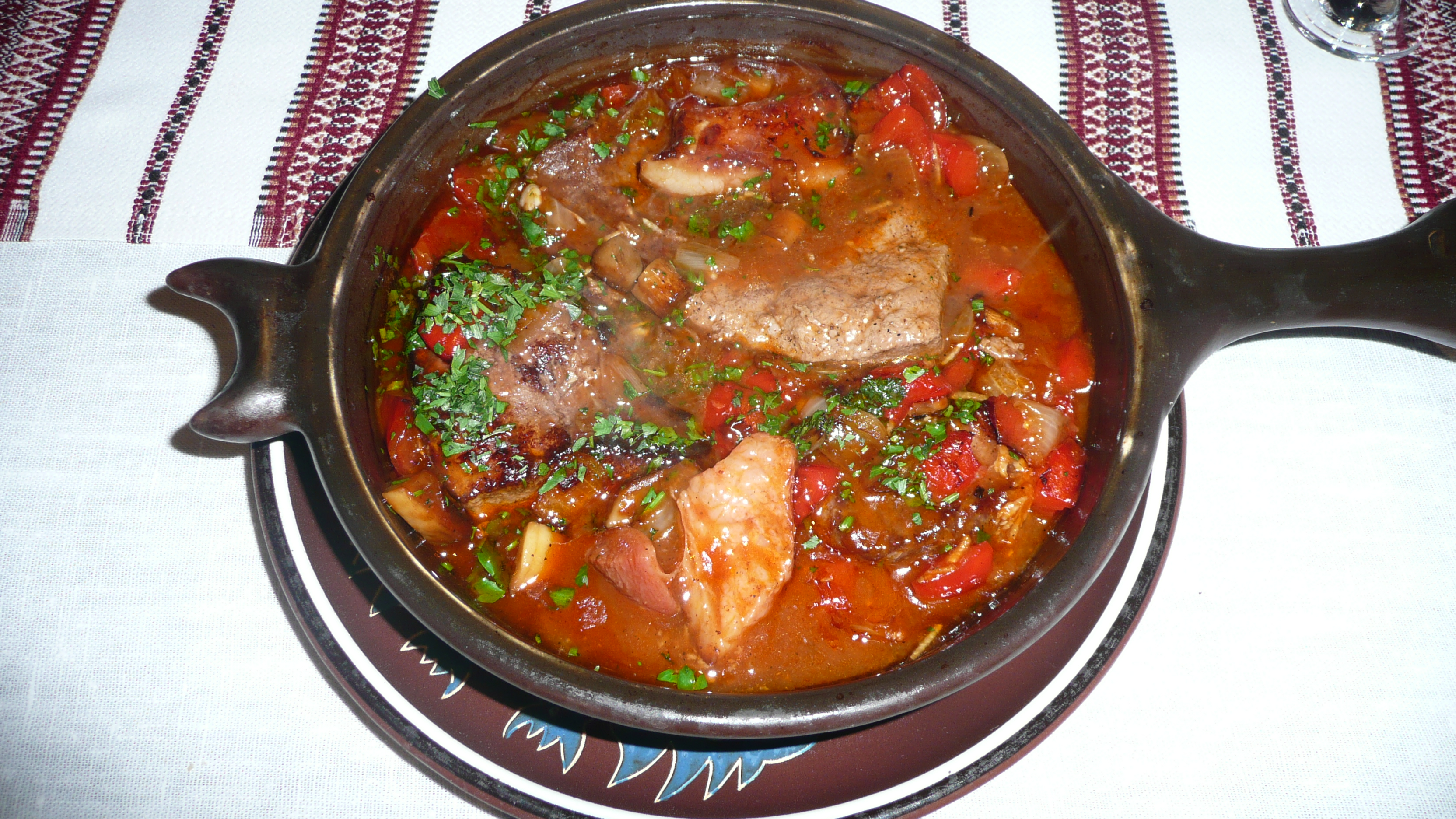 Cossack roasted meat in the Korchma - Restaurant of Traditional Ukrainian Cuisine in Zaporizhia